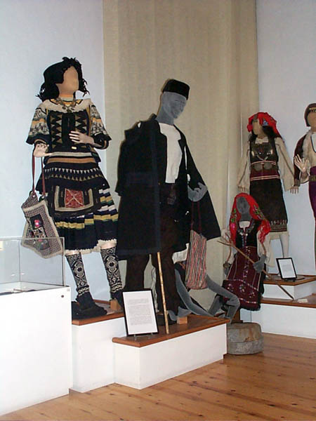 Costumes of Sarakatsani, image from the Municipal Museum, Kavala, East Macedonia, Greece